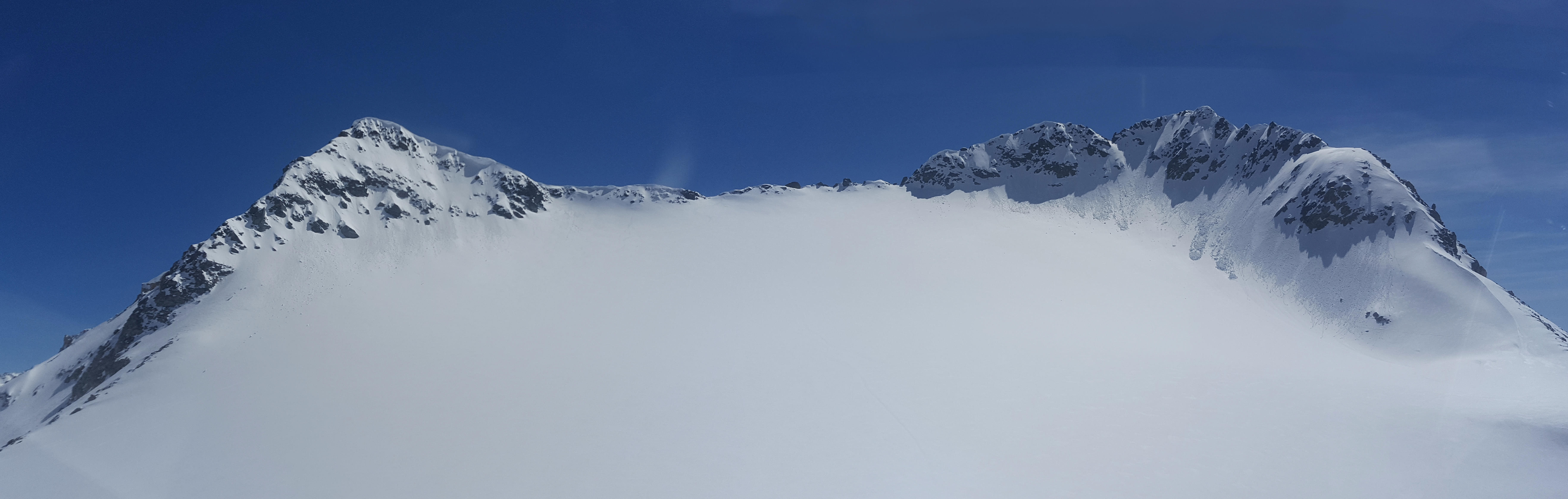 Piz Surgonda from north, picture taken from a helicotper (Bever/Surses, Grison, Switzerland)